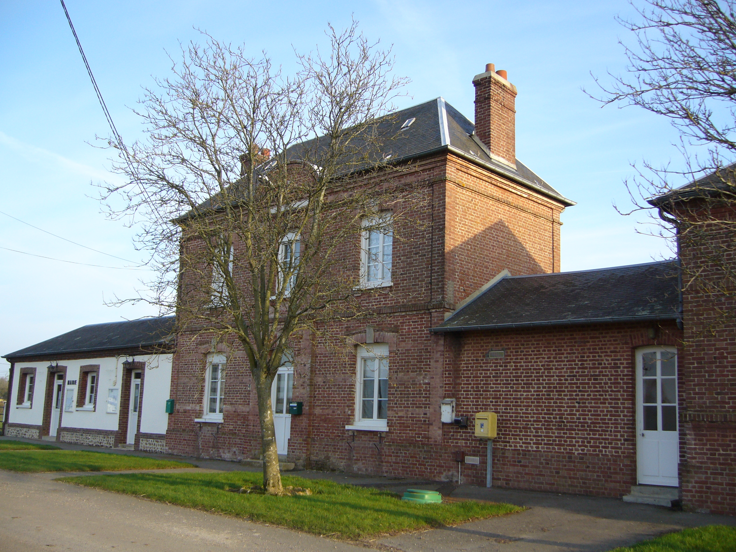 En hiver